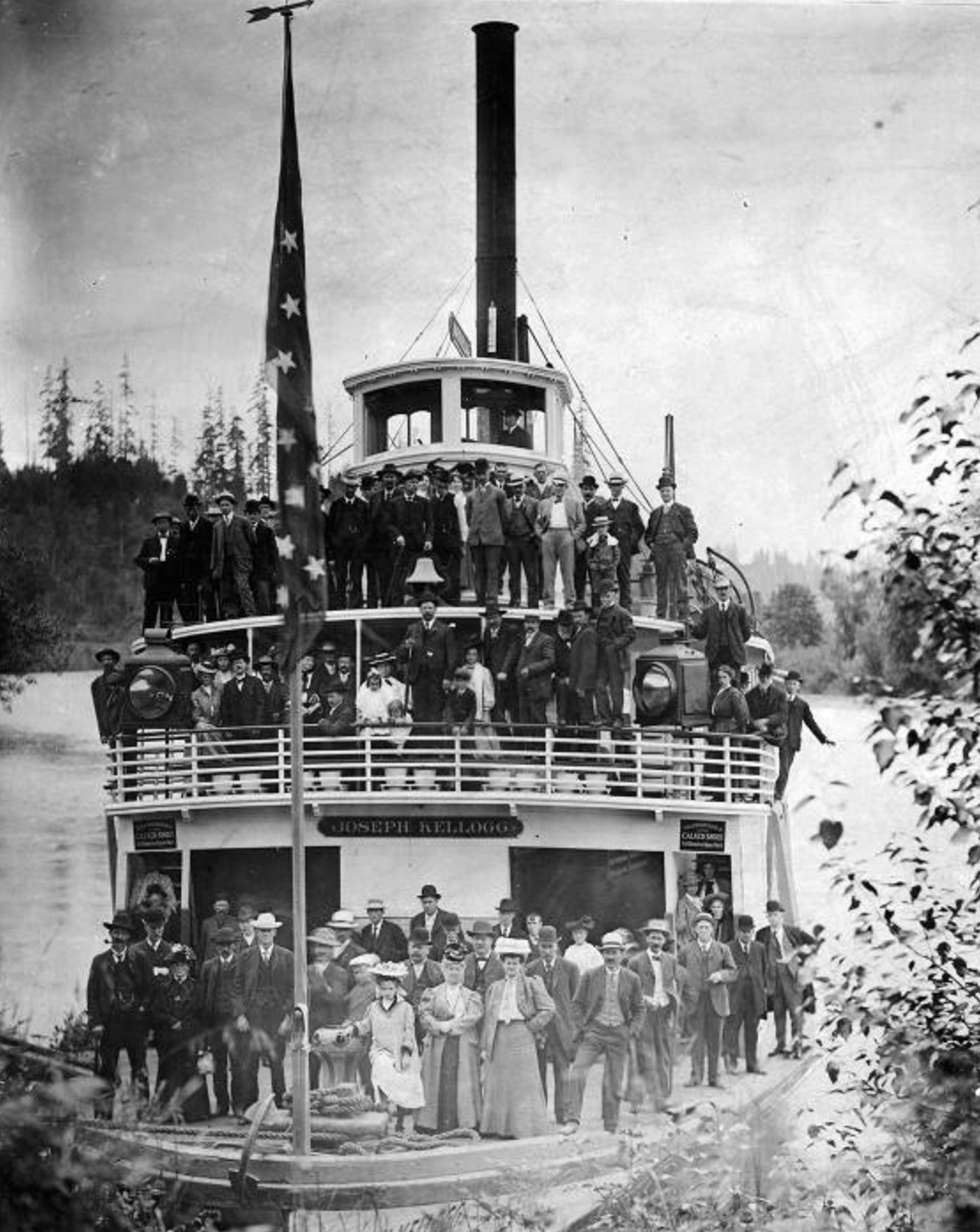 Sternwheel steamer Joseph Kellogg, probably on an excuraion (posed photograph).